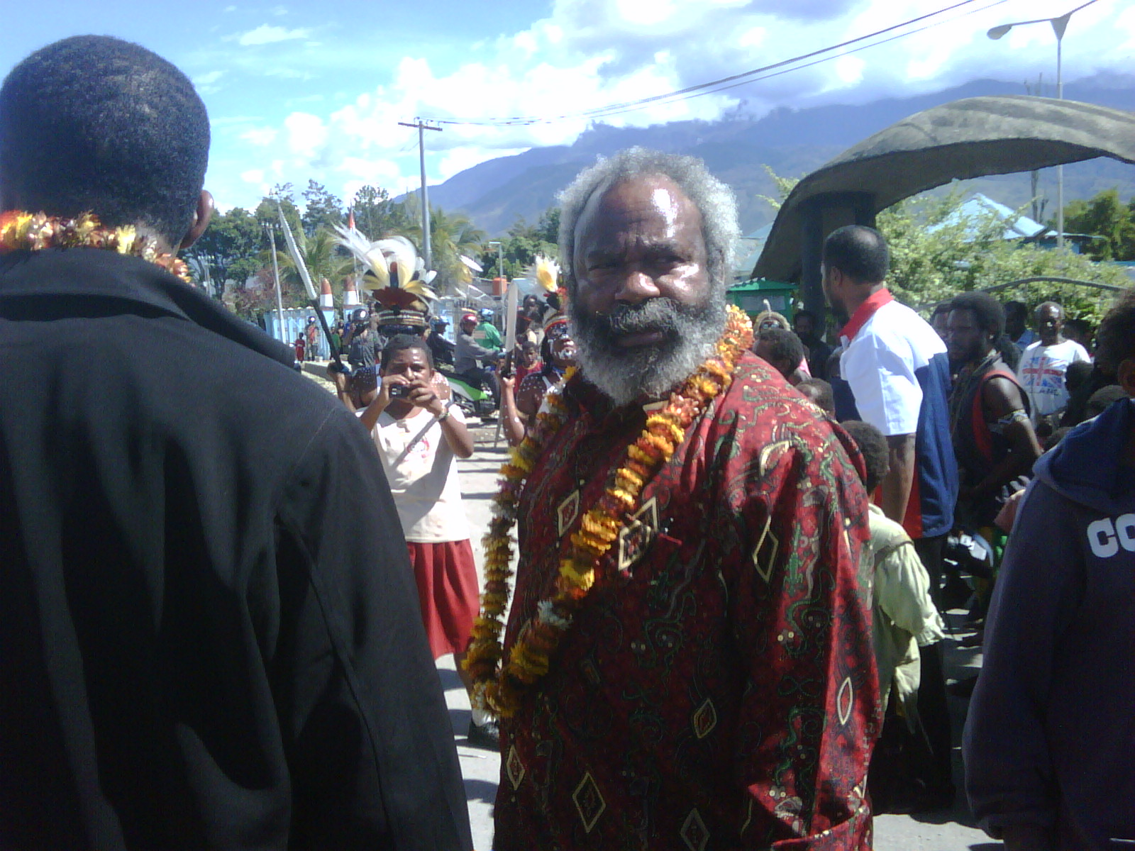 Calon Bupati Nius Kogoya,S.Th menghadap ke belakang setelah pemakaian bunga